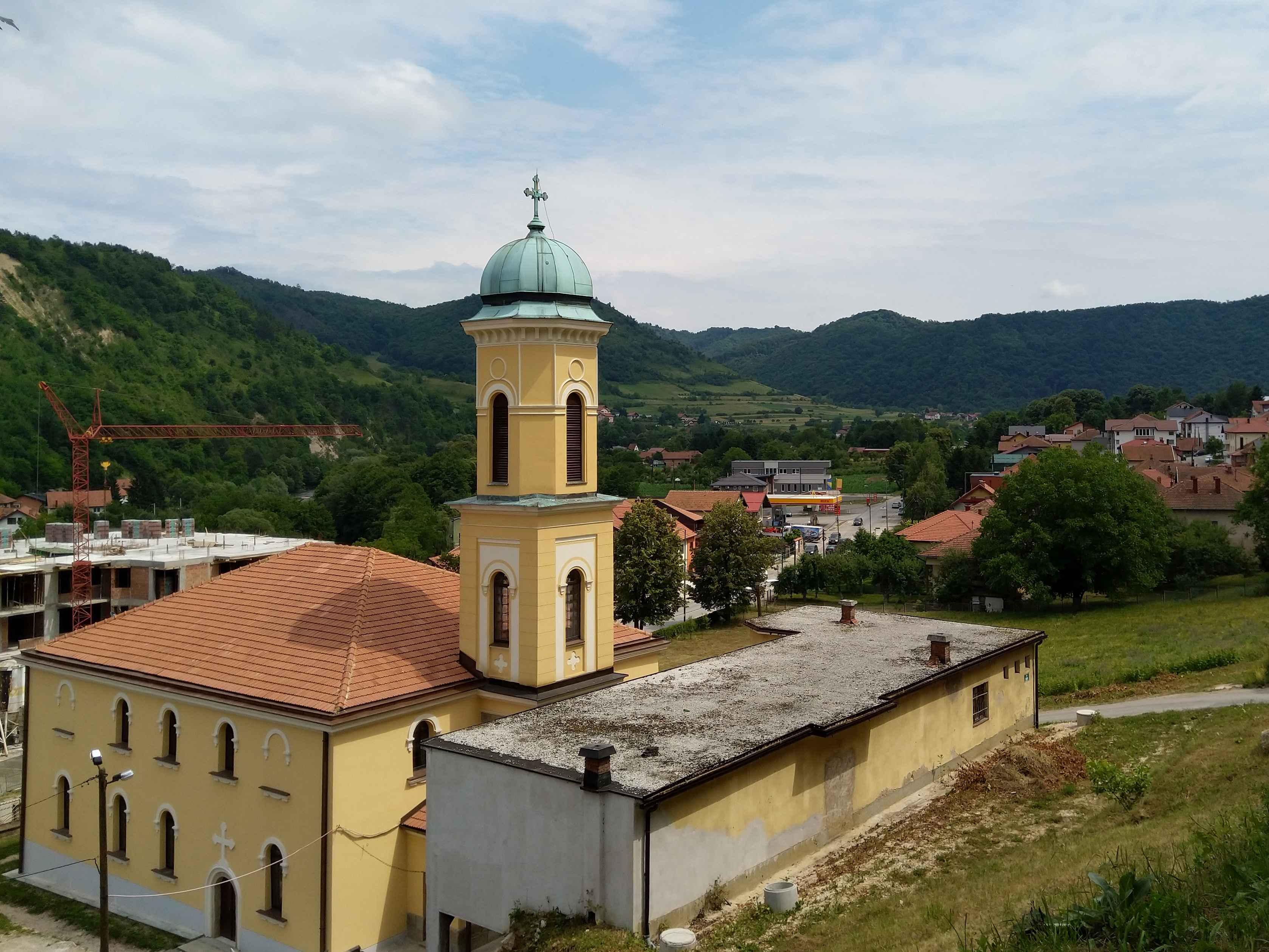 Church of St. Procopius in Visoko